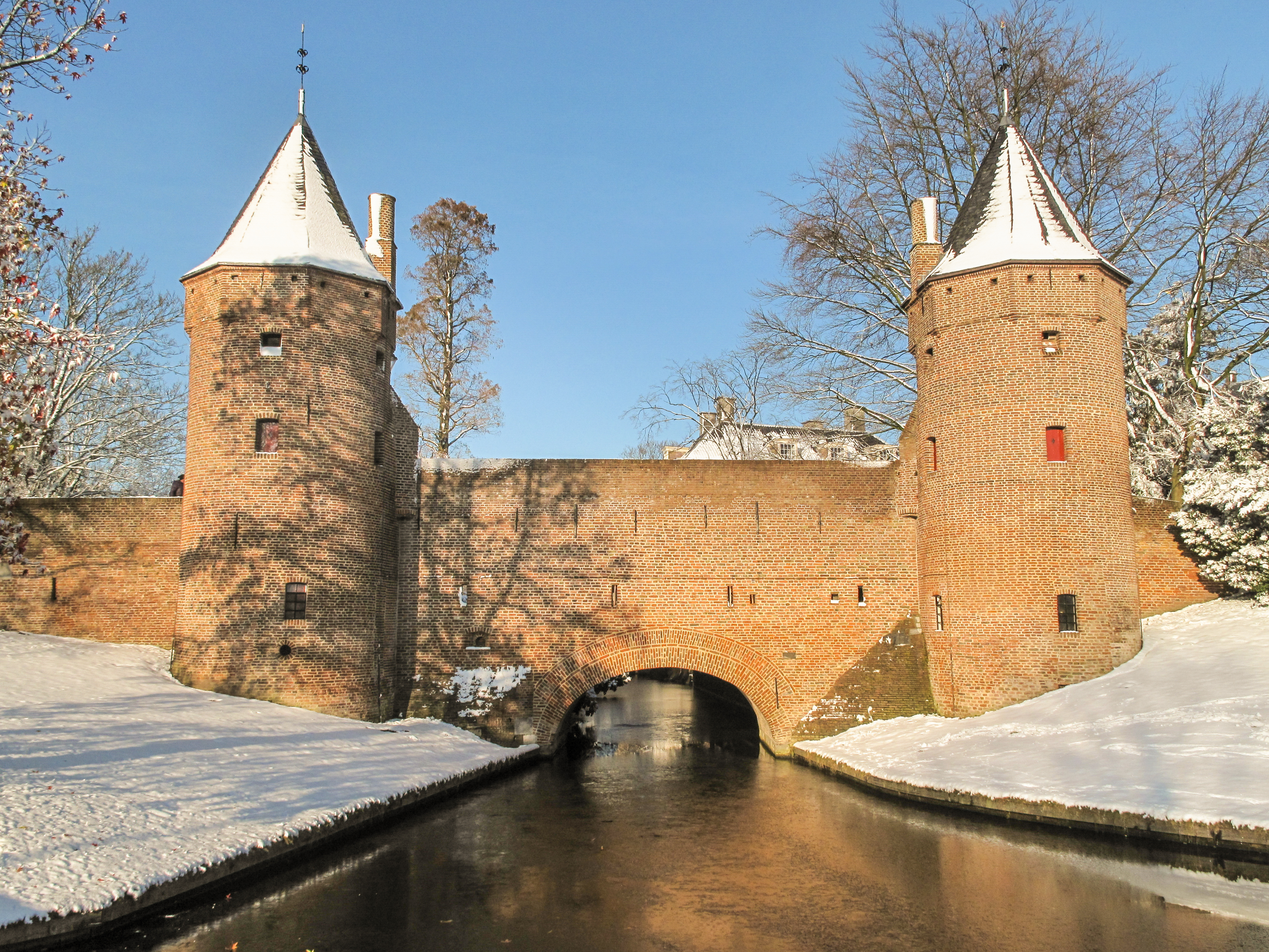 Amersfoort, towngate: de Monnikendam